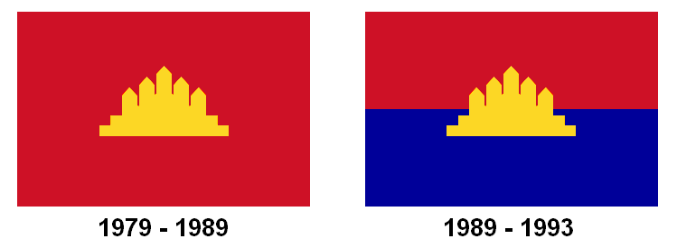 Flags_of_Cambodia_1979-1993